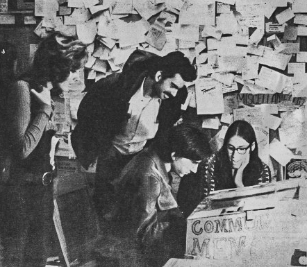 The first Community Memory terminal, an ASR-33 teletype, at Leopold's Records, Berkeley, CA, 1973. Photo taken by and for the Community Memory Project, first published in the Resource One Newsletter, April 1974, and originally posted to the web in 1995 by Mark Szpakowski at